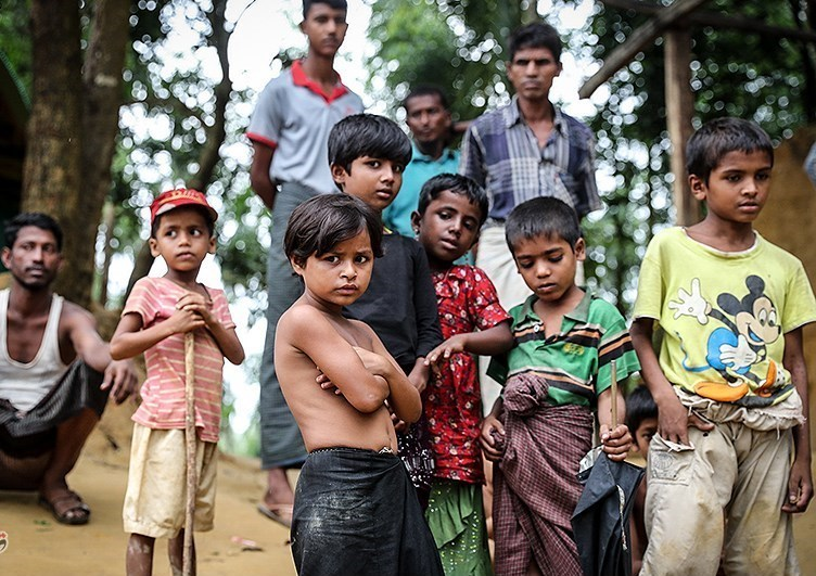 Rohingya displaced Muslims